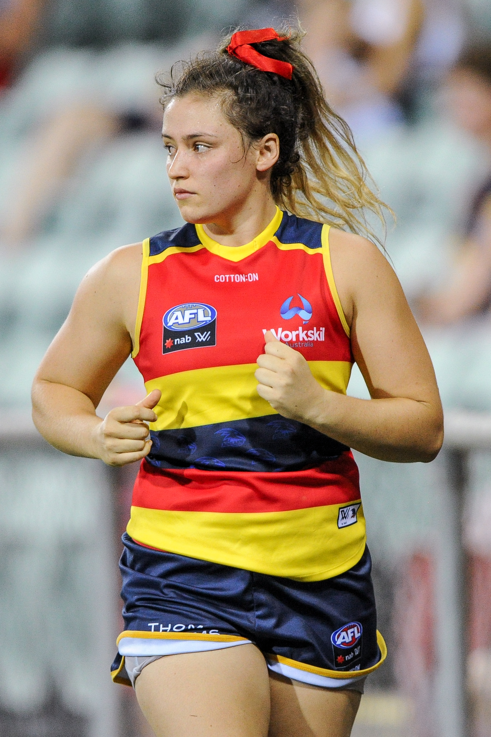 Georgia Bevan in the AFL Women's preseason match between the Adelaide Football Club and Fremantle Football Club on 20 January 2018 at TIO Stadium.